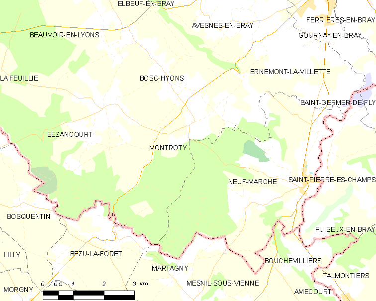 Map of French municipality Montroty